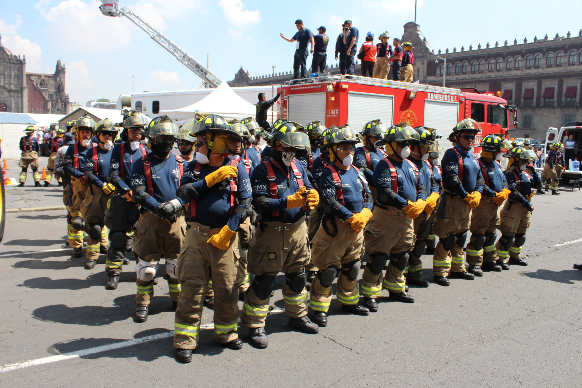 Heroico Cuerpo de Bomberos del Distrito Federal (Mexico City's Heroic Fire Department) conducted a simulated rescue of victims of a landslide by an earthquake of 8.1 Richter scale on the Zocalo in Mexico City.